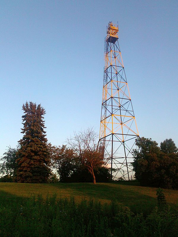 Indian Mounds Park "Airway" Beacon, built 1929 and restored to original color scheme, in Indian Mounds Regional Park, St Paul, Minnesota, USA.